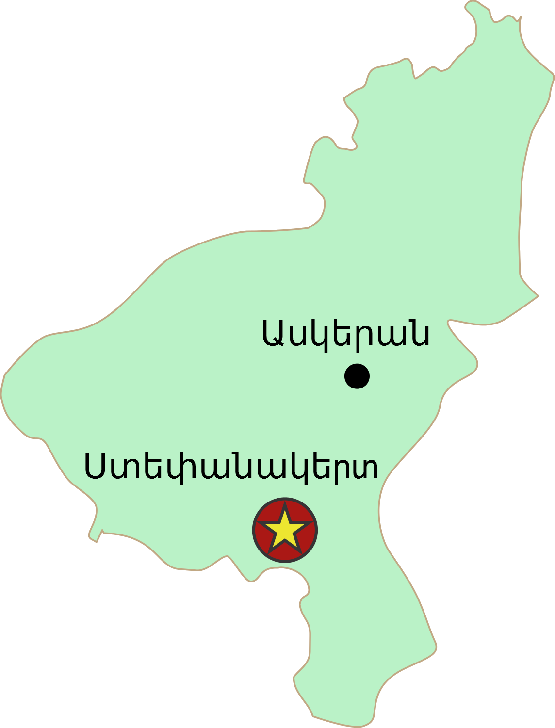 Askeran Province, NKR